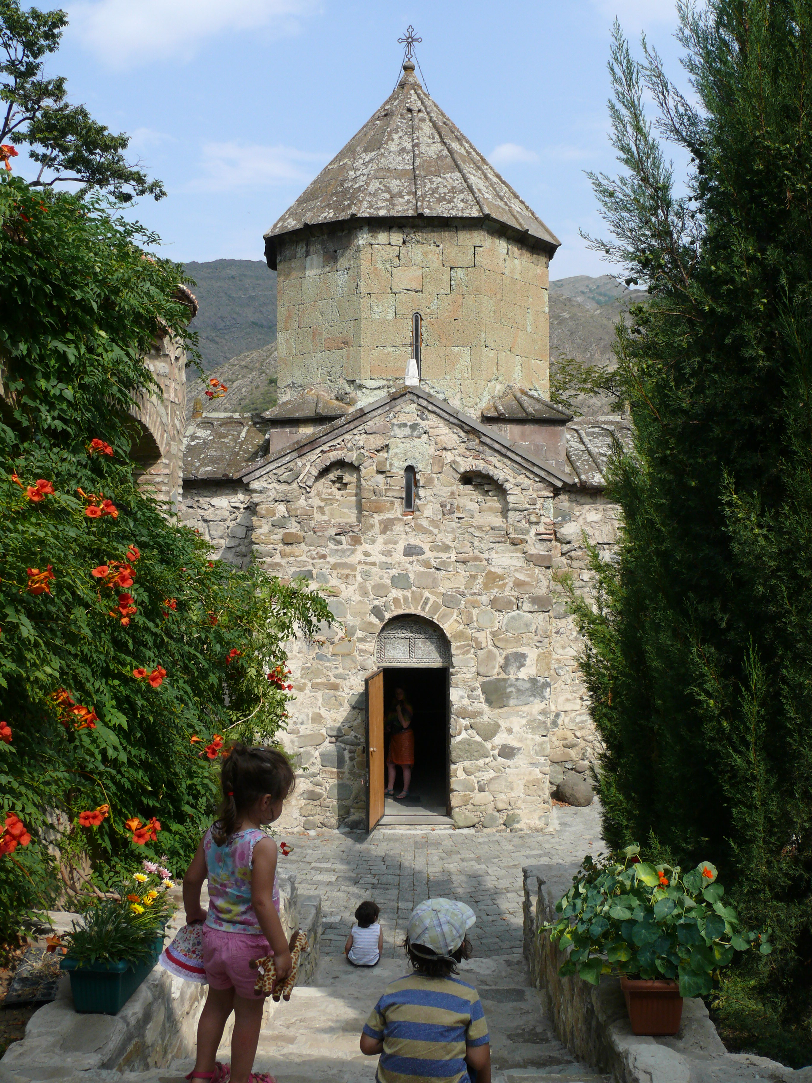 Church of saint Mary in Big Ateni